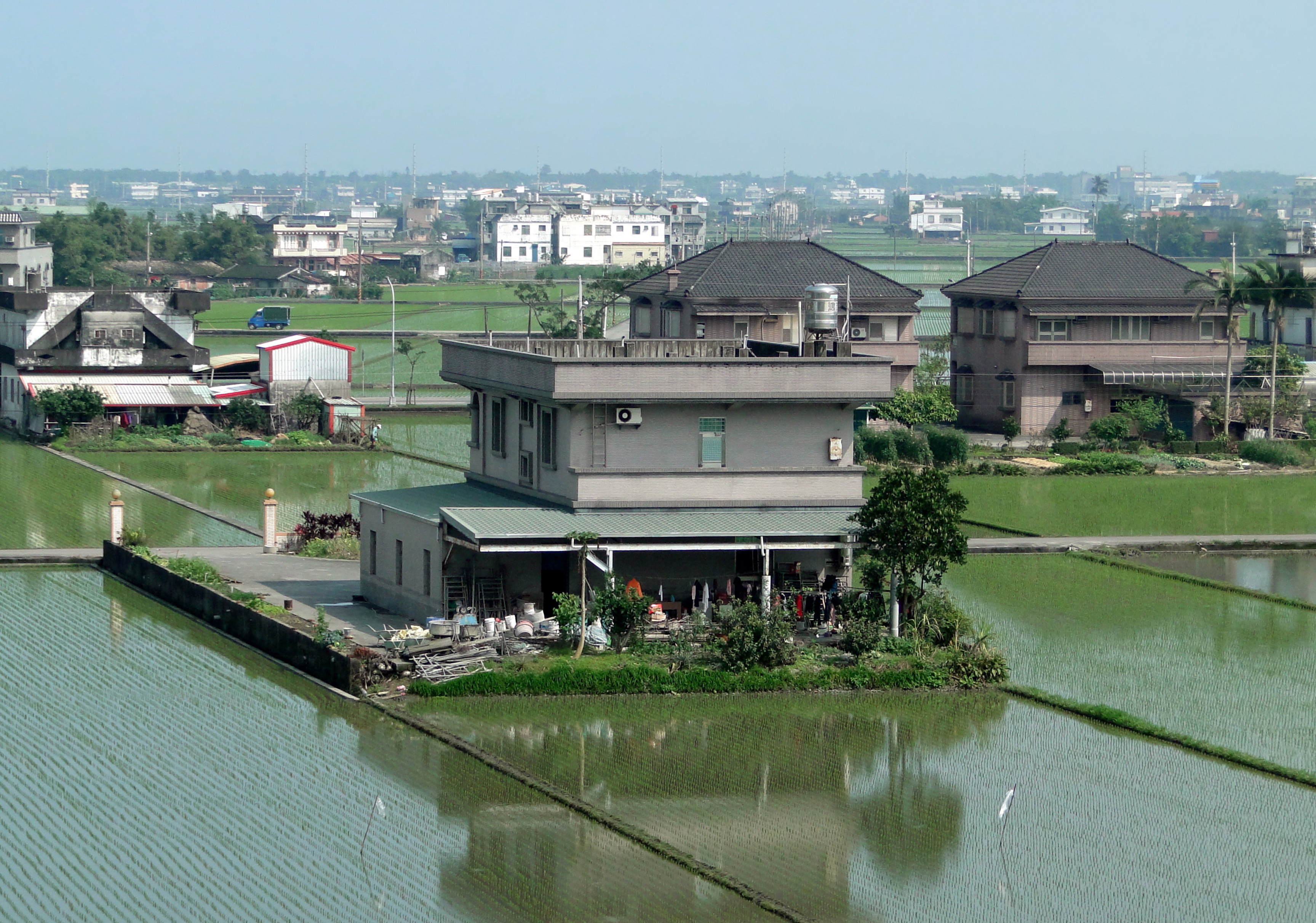 Paddy field in Yilan County, Taiwan